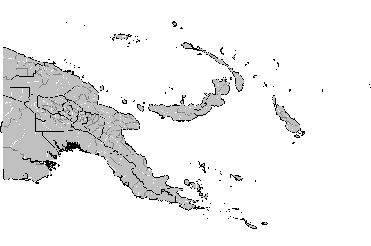 Map of the Local Level Governments (LLGs) of Papua New Guinea, updated to show outlines of Hela and Jiwaka provinces.